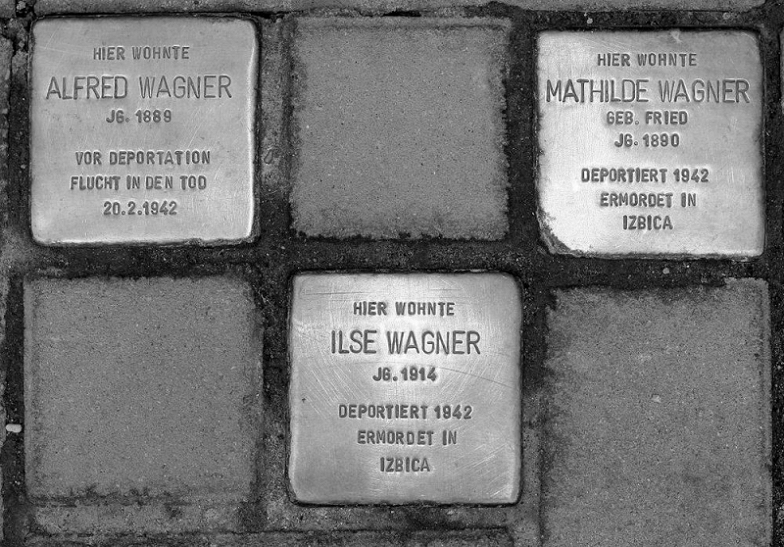 Stolperstein for Alfred, Mathilde and Ilse Wagner, Merkelsgasse 5, Nuremberg